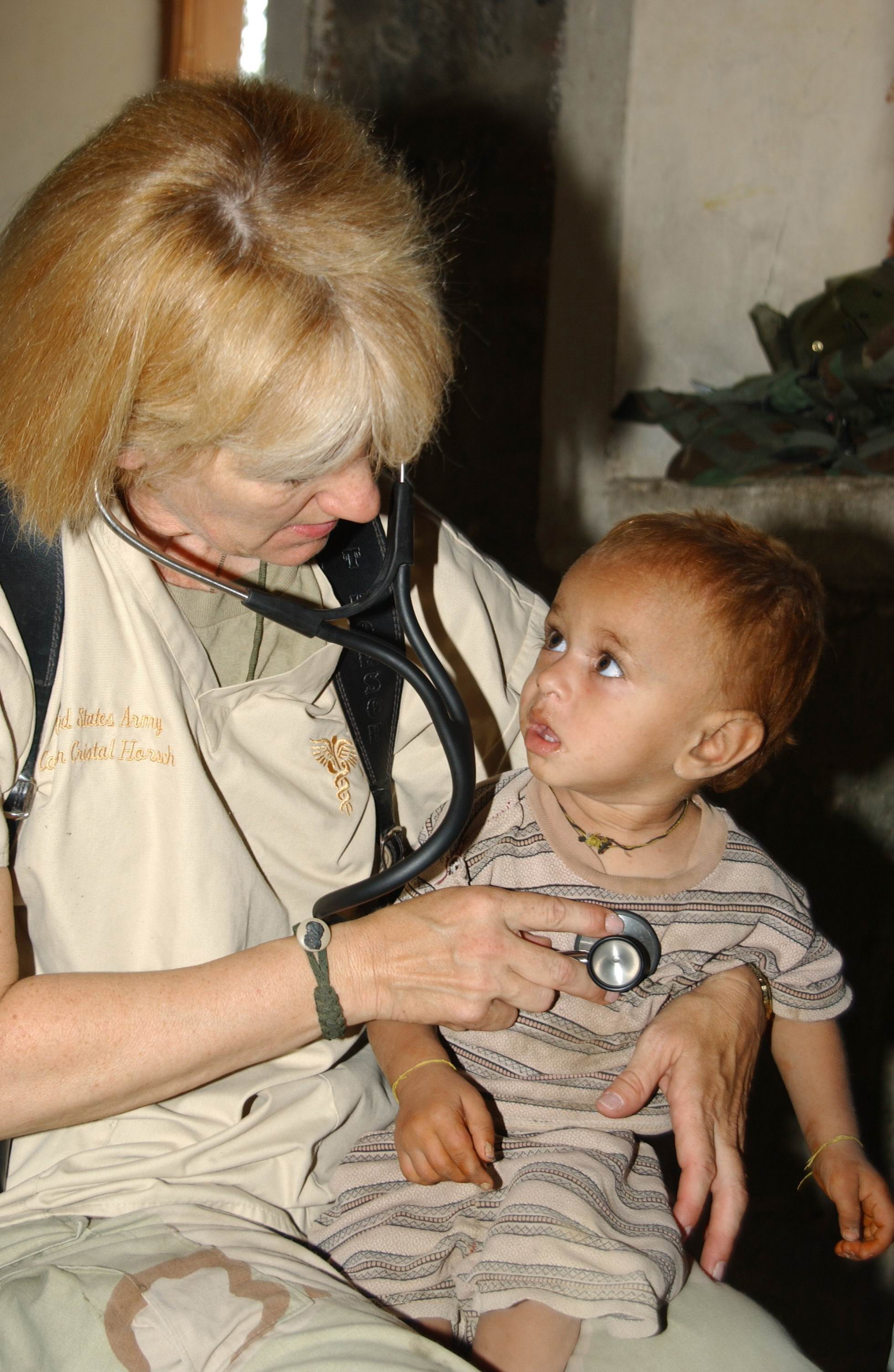 U.S. Army Capt. Cristal Horsch uses a stethoscope to listen as she examines an Afghan child during a Cooperative Medical Assistance mission in the Kunar Province of Afghanistan on Aug. 18, 2004. Task Force 325, Task Force Victory and the Asadabad Provincial Reconstruction Team provided people and animals with medical care. DoD photo by Staff Sgt. Vernell Hall, U.S. Army. (Released) 040818-A-1300H-053